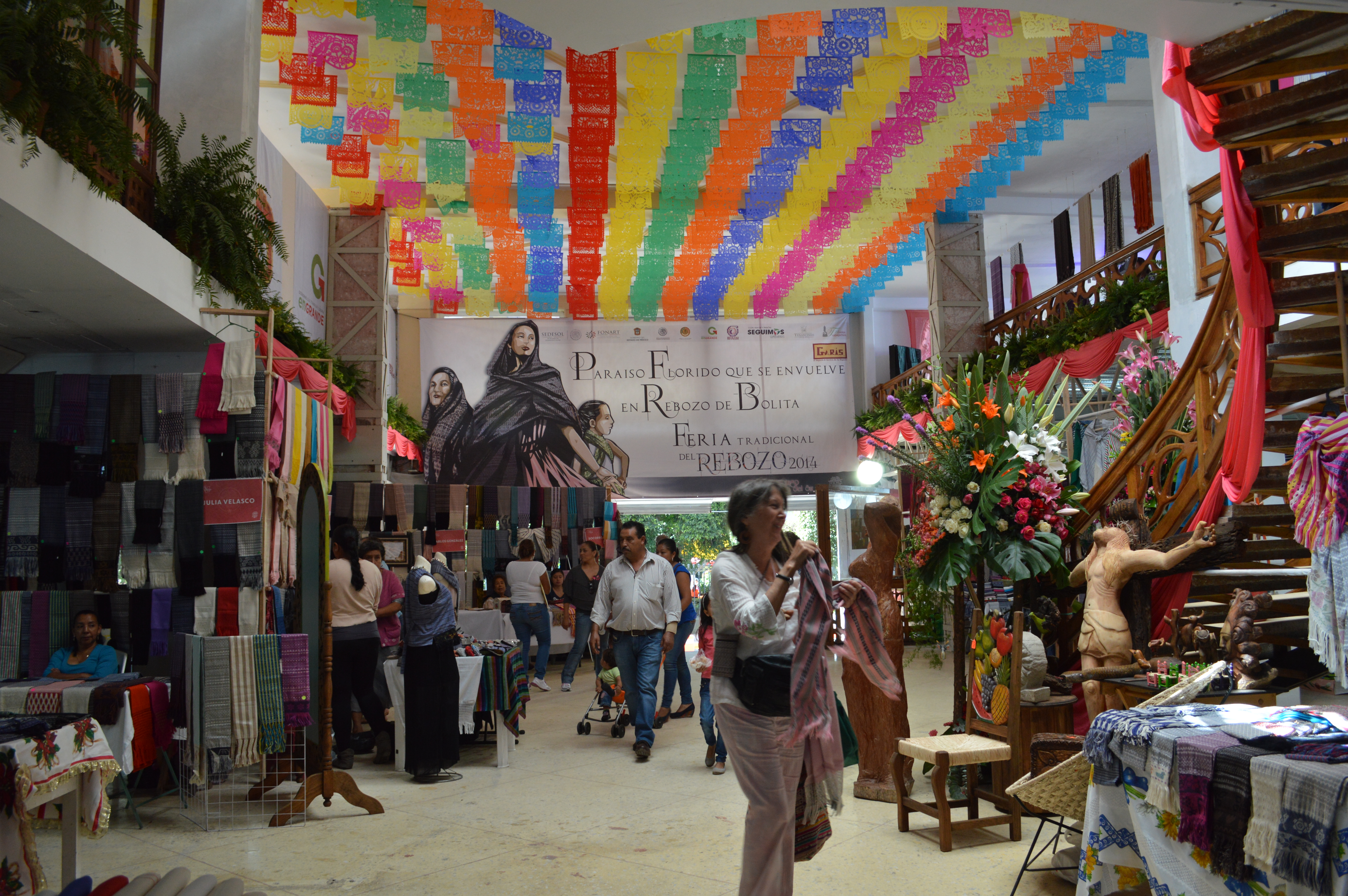 Feria de Rebozo in Tenancincgo, Mexico State, Mexico